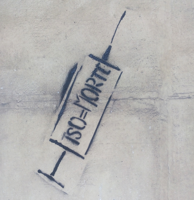 Protest graffiti against T.S.O. (italian for Trattamento Sanitario Obbligatorio, Involuntary treatment), Turin, Italy; the meaning of TSO = MORTE is Involuntary treatment = Death